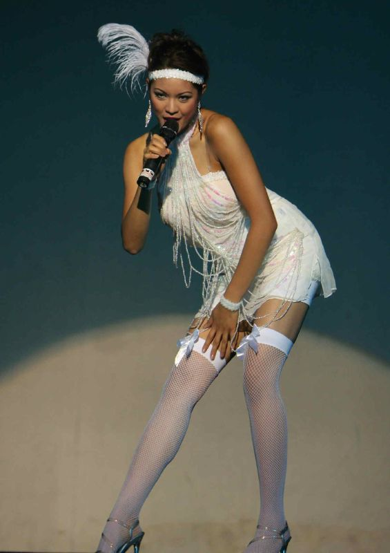 Riza Raquel Santos of Canada competes in the Talent Competition at Miss Earth 2006